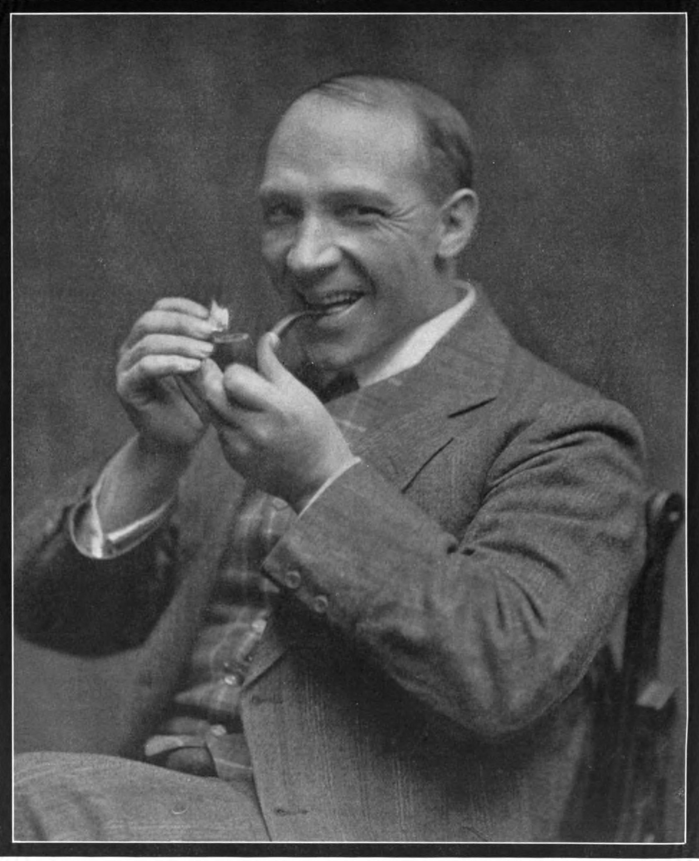 Harry Lauder in New York in 1909